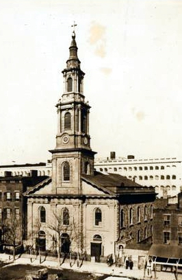 Ewing Galloway, negative #545 / United States. / States / New York / New York City / This was photographed before 1879 and so copyright has expired.